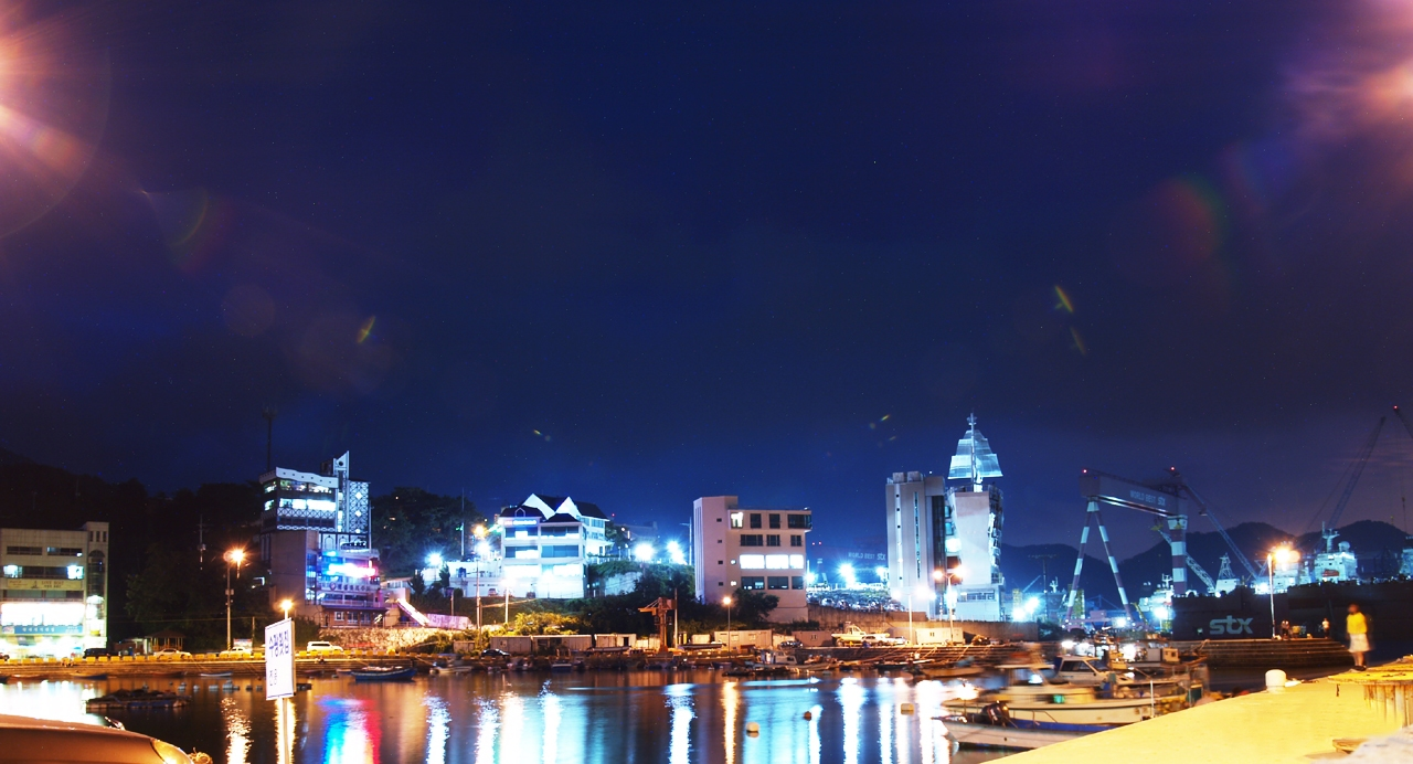 Night view of port in Jinhae